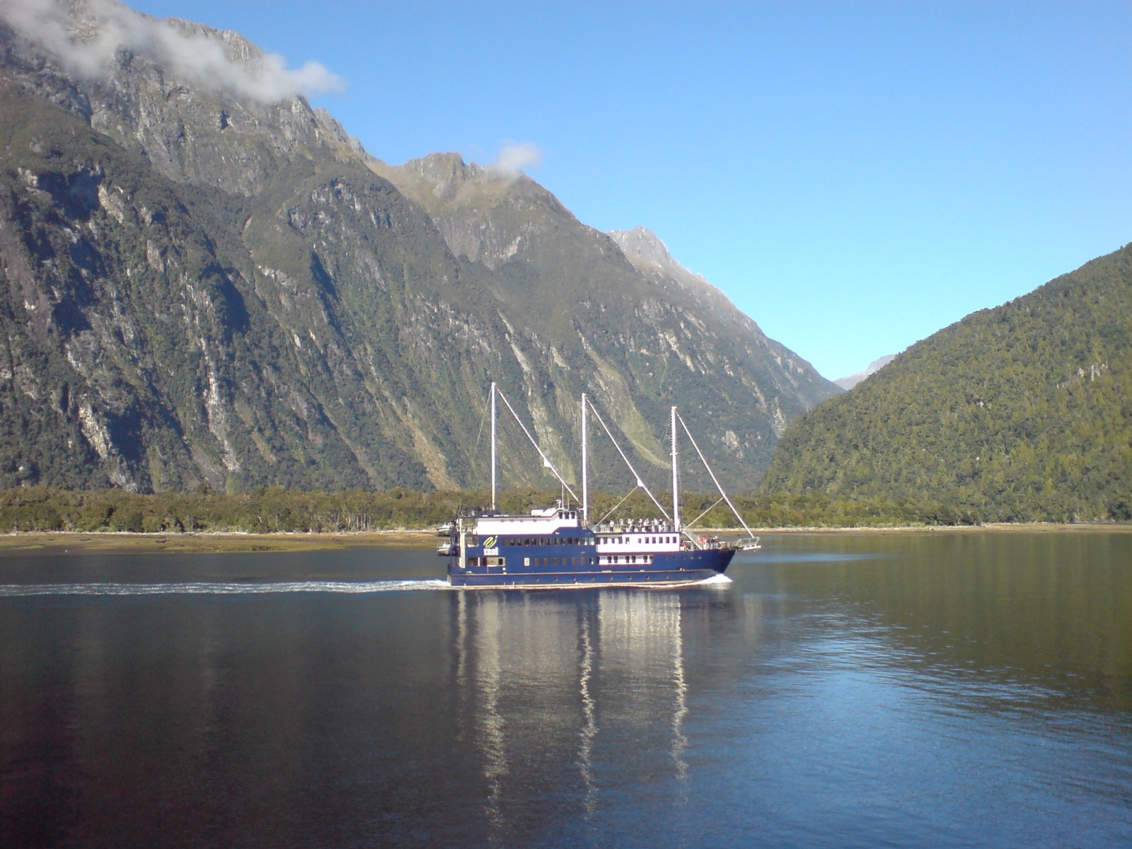 Real Journeys tour boat "Milford Mariner" on the Milford Sound. Overnight accommodation is available on these ships.